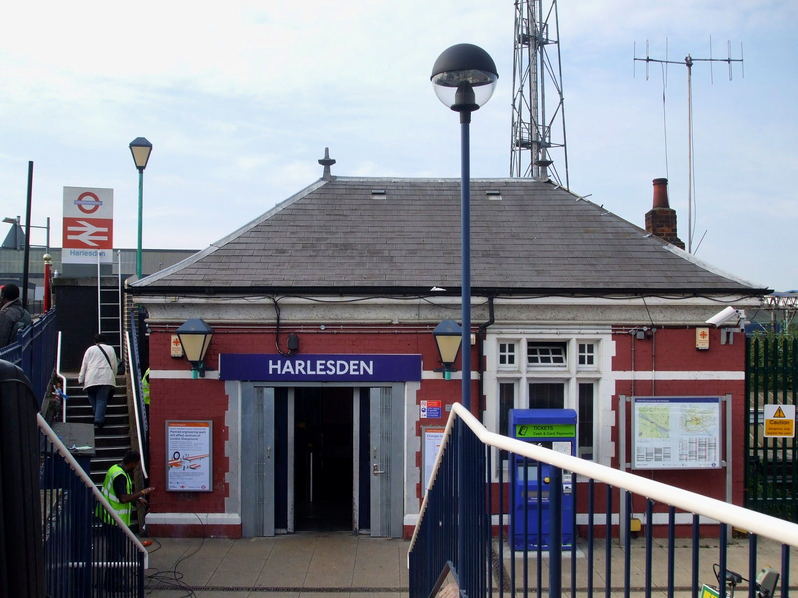 Harlesden station building, served by both London Underground and Overground.